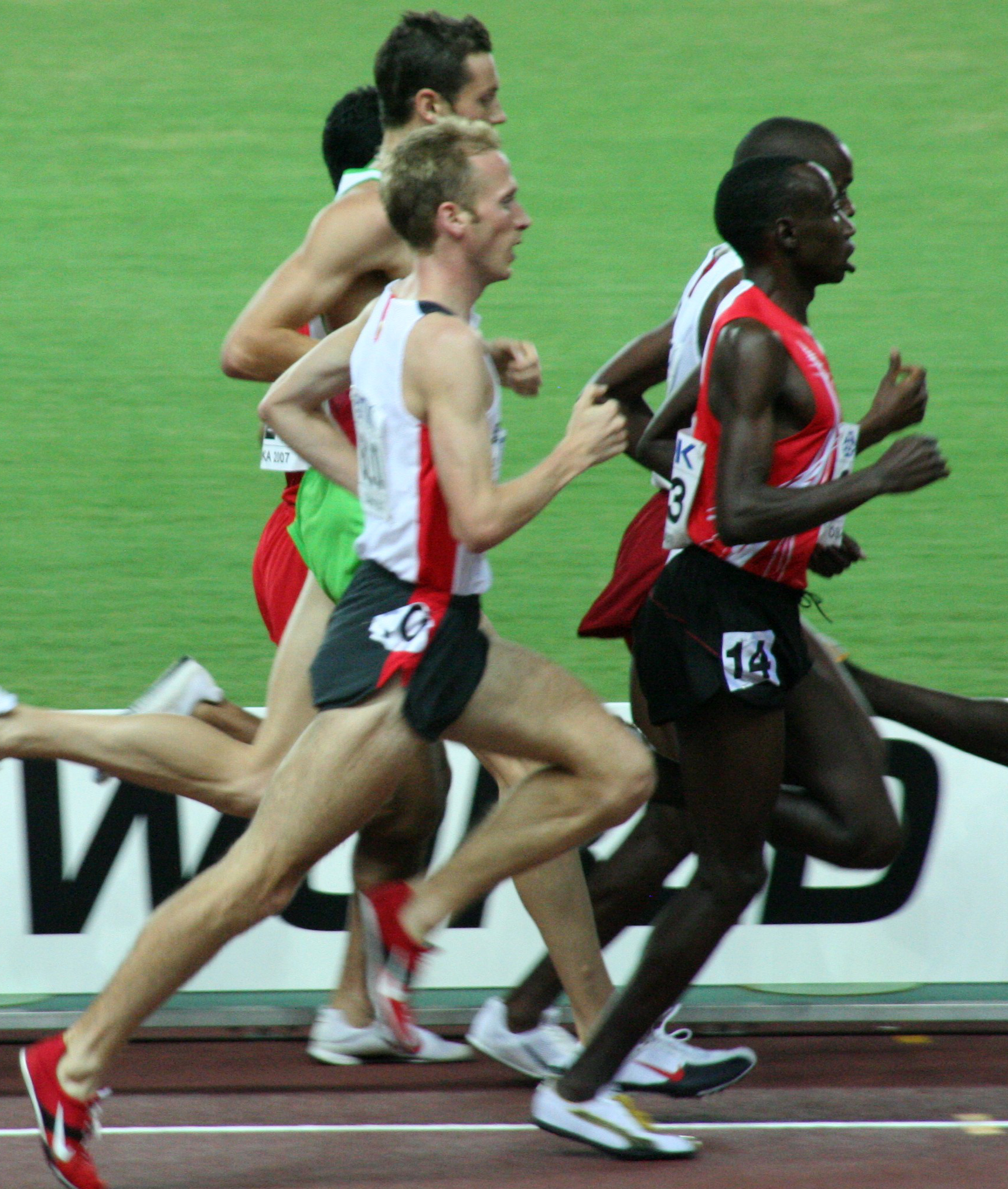 World Athletics Championships 2007 in Osaka - Scene from heat 2 of the first round of the men*s 5000 metres: Jan Fitschen, Dieudonné Disi